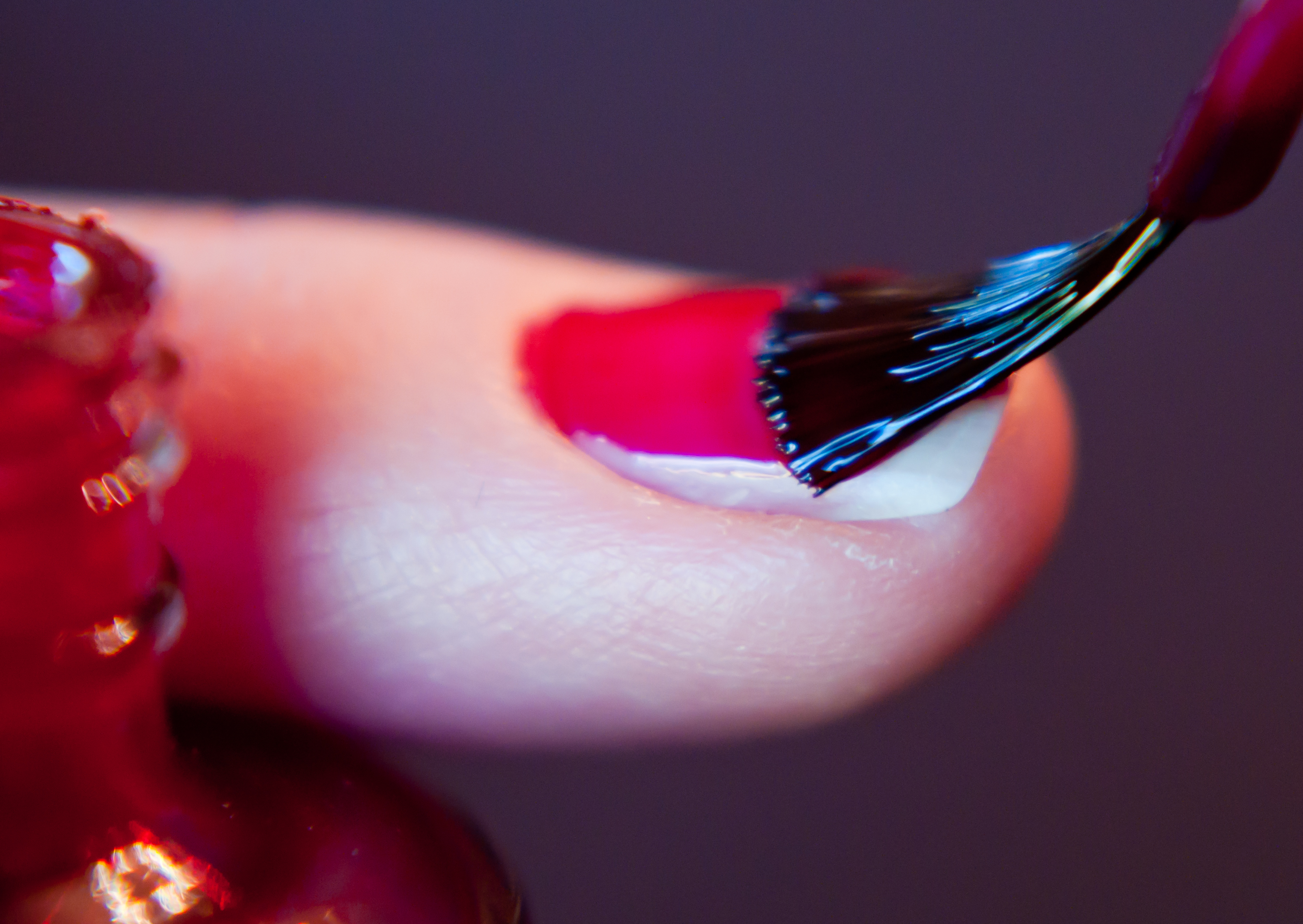 left index finger nail of a Caucasian woman receives a coat of red polish